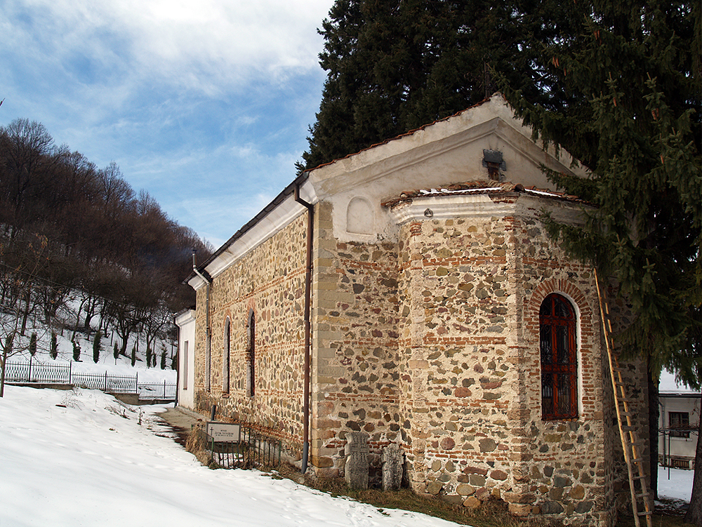 Monastery Church, village German, Sofia Bulgaria